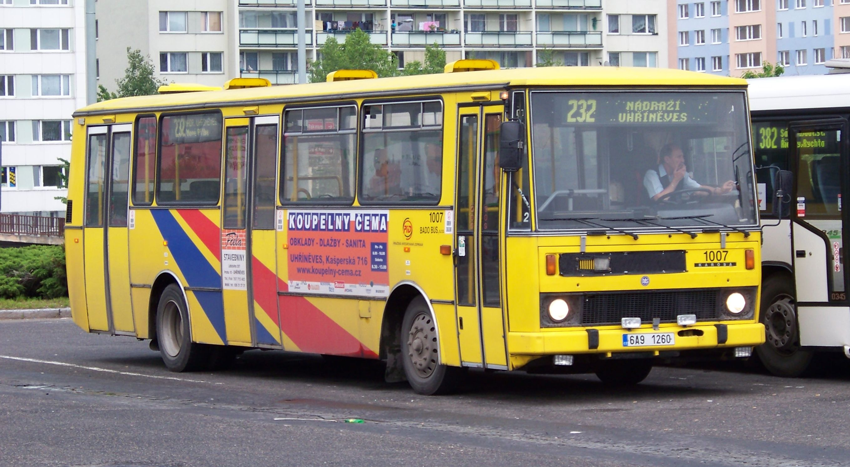 Háje, Prague, the Czech Republic. Bus of BADO BUS.